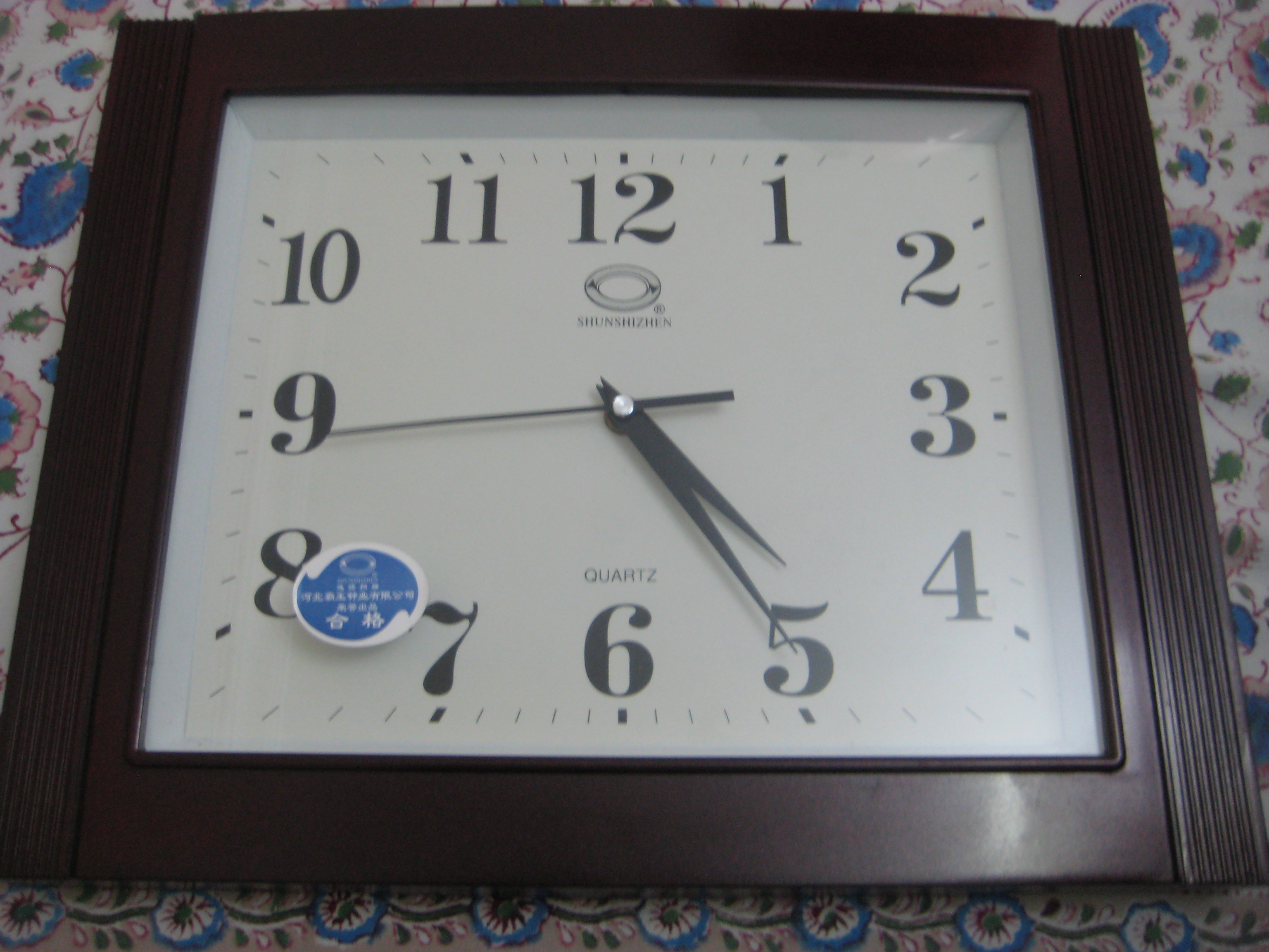 Electronic Clock